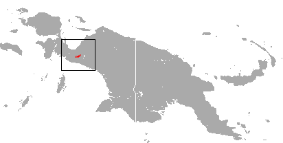 Mouse Bandicoot (Microperoryctes murina) range